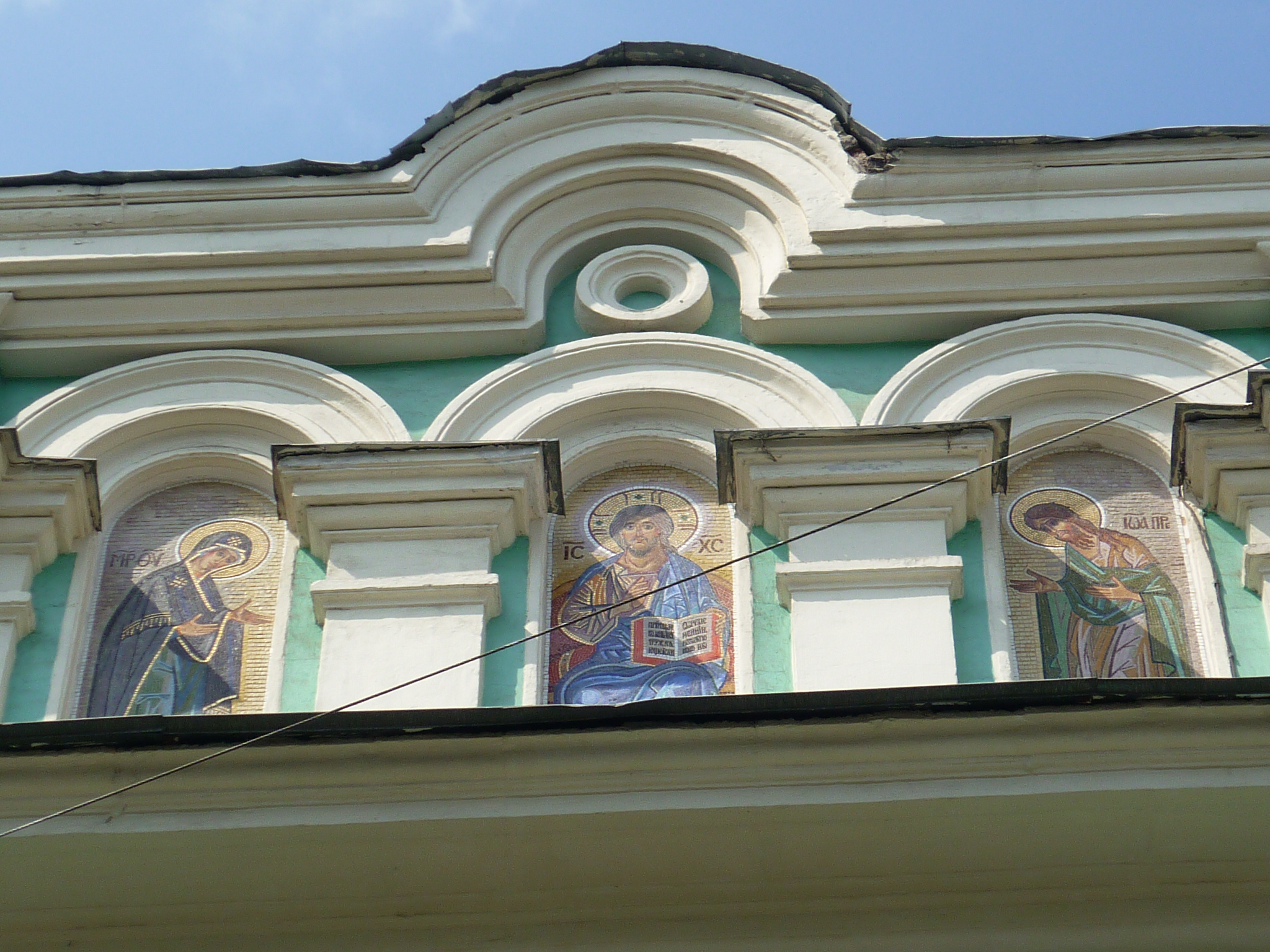 Church of the Epiphany in Yelokhovo (Moscow)